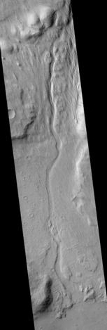 Asopus Vallis, as seen by hirise. Location is 4.4 degrees south latitude and 210.4 degrees east longitude. Image was taken by the Mars Reconnaissance Orbiter's HiRISE. The HiRISE camera was built by Ball Aerospace and Technology Corporation and is operated by the University of Arizona. Image courtesy NASA/JPL/University of Arizona.